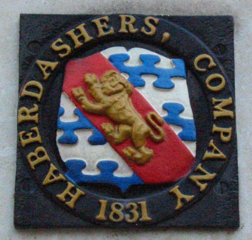 This plaque is at Garrard House, 31-45 Gresham Street, City of London, EC2V 7QA, England. Formerly the site of Haberdashers' Hall, this building is currently occupied by Schroders Bank. The new Haberdashers' Hall is located in West Smithfield Street. Nrf: Pliaque à Londres